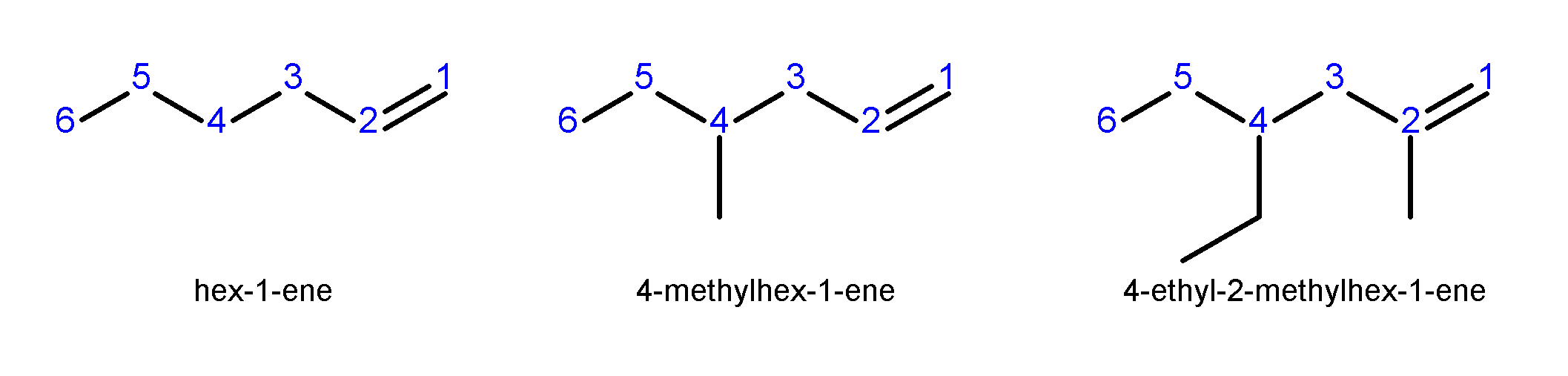 Nomenclature of alkenes